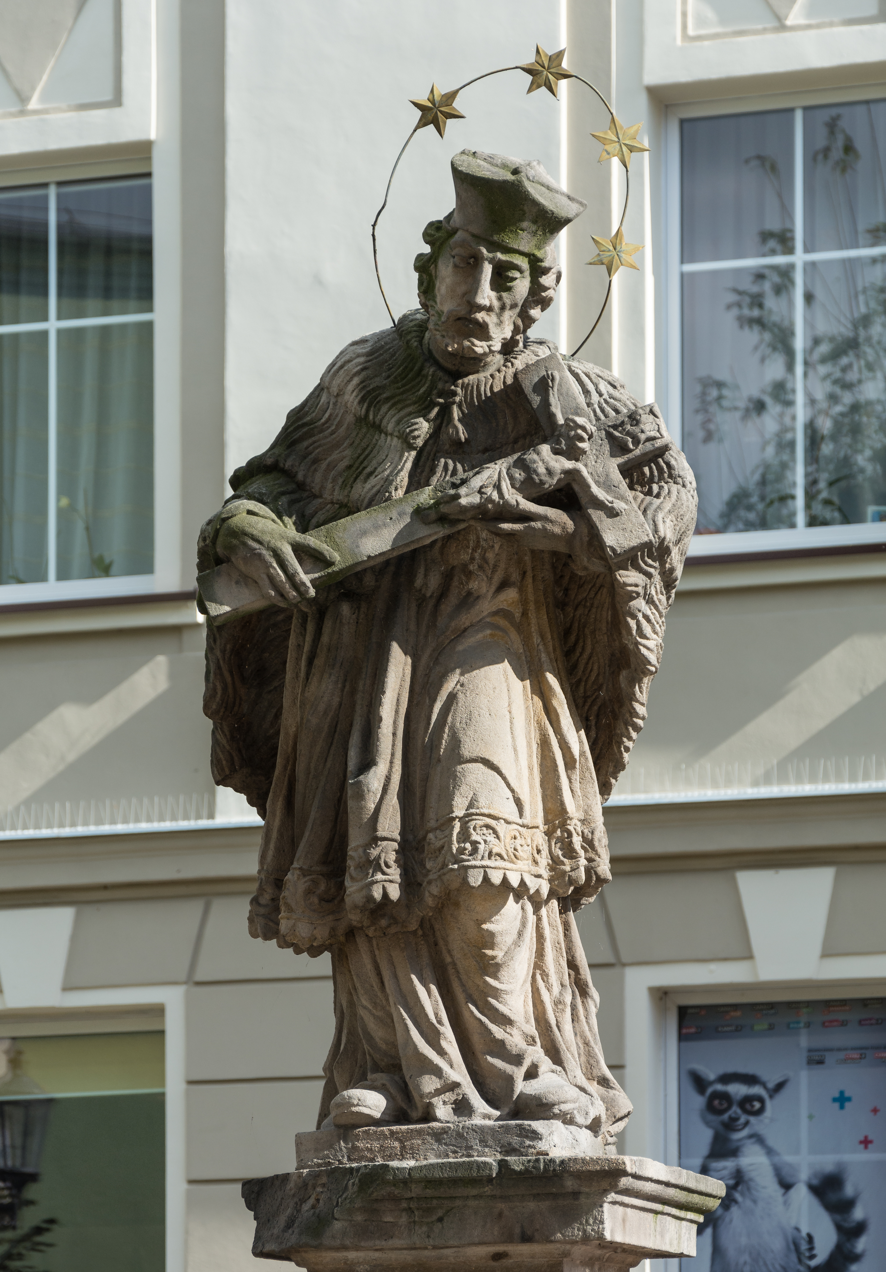 John of Nepomuk statue in Nowa Ruda (Cmentarna Street)